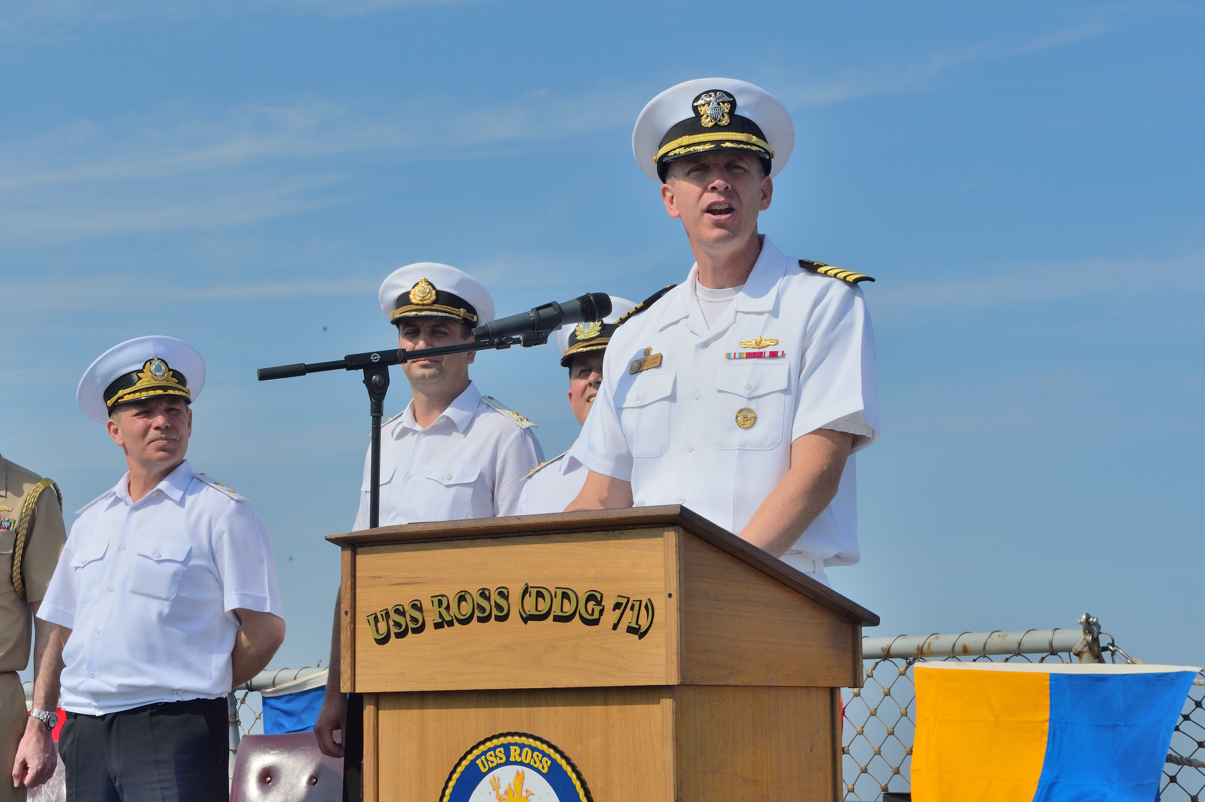 U.S. Navy Commodore James Aiken, at lectern, the commander of Destroyer Squadron 60 and the director of exercise Sea Breeze 2014, speaks during the opening ceremony for the exercise aboard the guided missile destroyer USS Ross (DDG 71) in the Black Sea Sept. 8, 2014. Sea Breeze is a joint/combined maritime exercise held annually in the Black Sea and at various land-based Ukrainian training facilities with the goals of strengthening maritime security and stability, sharing information and building teamwork and mutual cooperation.